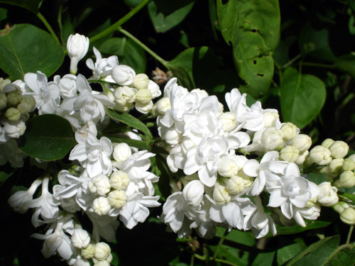 Syringa vulgaris 'Maréchal Foch' This is not cultivar 'Maréchal Foch'